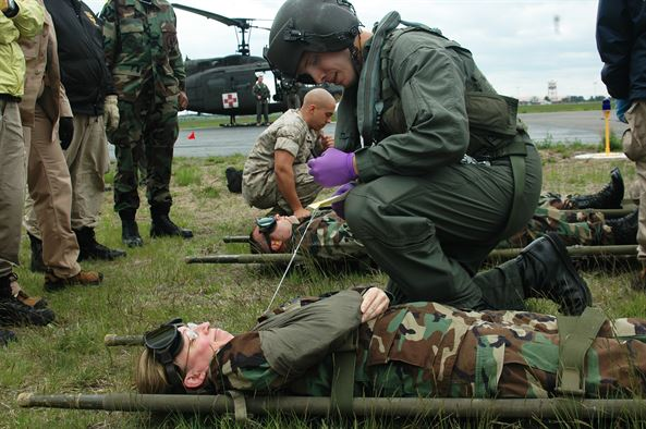 A Rhode Island Army National Guard Huey aircraft member (foreground) and a Marine ambulance driver prepare Civil Air Patrol volunteers for a simulated airlift from the scene of a mock disaster in the Dogpatch training area here. (U.S. Air Force photo/Master Sgt. Tom Allocco)